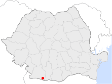 Location of Călărași (Dolj) in Romania.